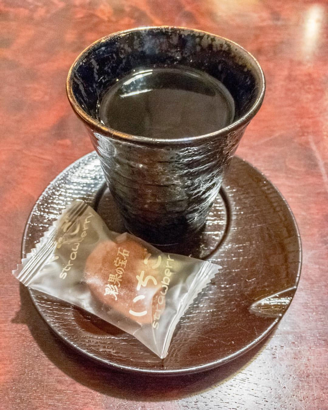 coffee #☕️ #lightroomhdr